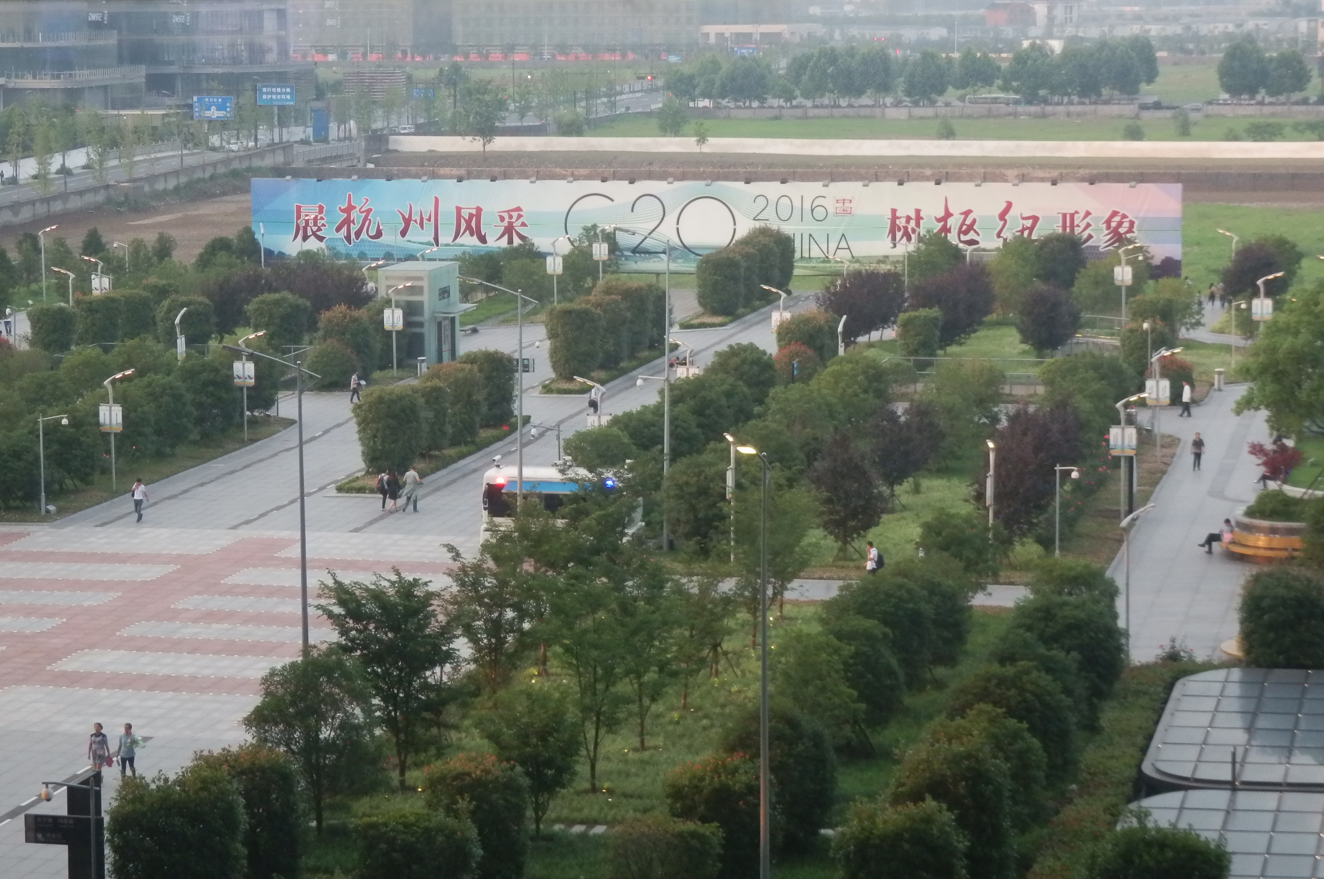 G20 banner outside Hangzhou East train station, for 2016 G-20 summit in China, September 4-5, 2016.